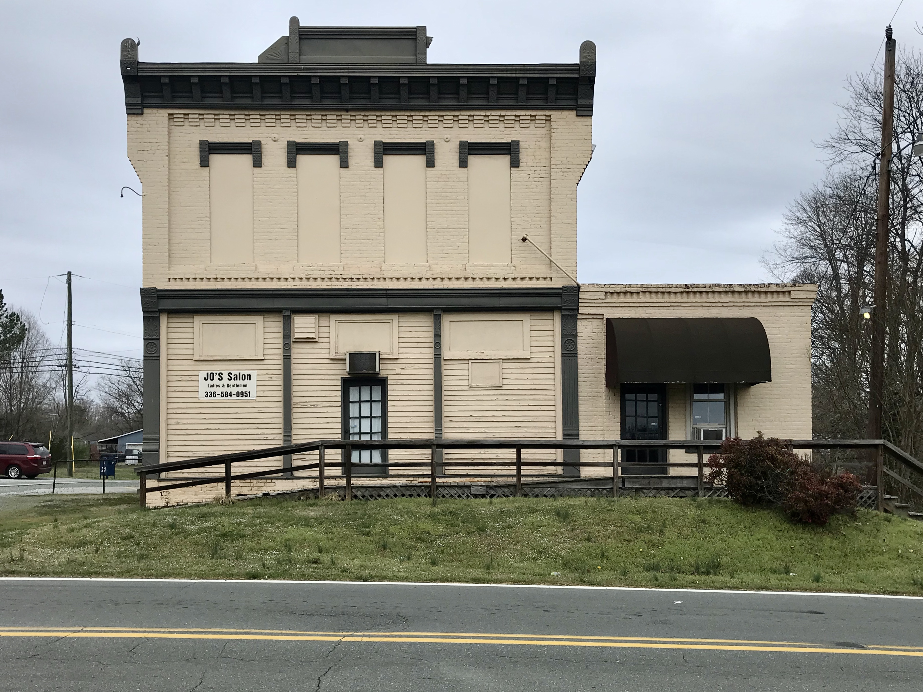 Former mill store building in Altamahaw, presently housing a salon and post office